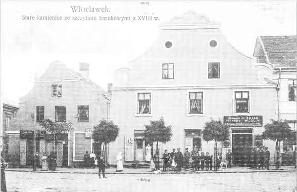 Barocco tenement houses at Old Market Square 14 and 15 in Włocławek on photograph by Bolesław Sztejner, made before 1913 year. They was living houses then, now there is a Muzeum Ziemi Kujawskiej i Dobrzyńskiej (means:Museum of Kuyavian and Dobrzyń land) in them.